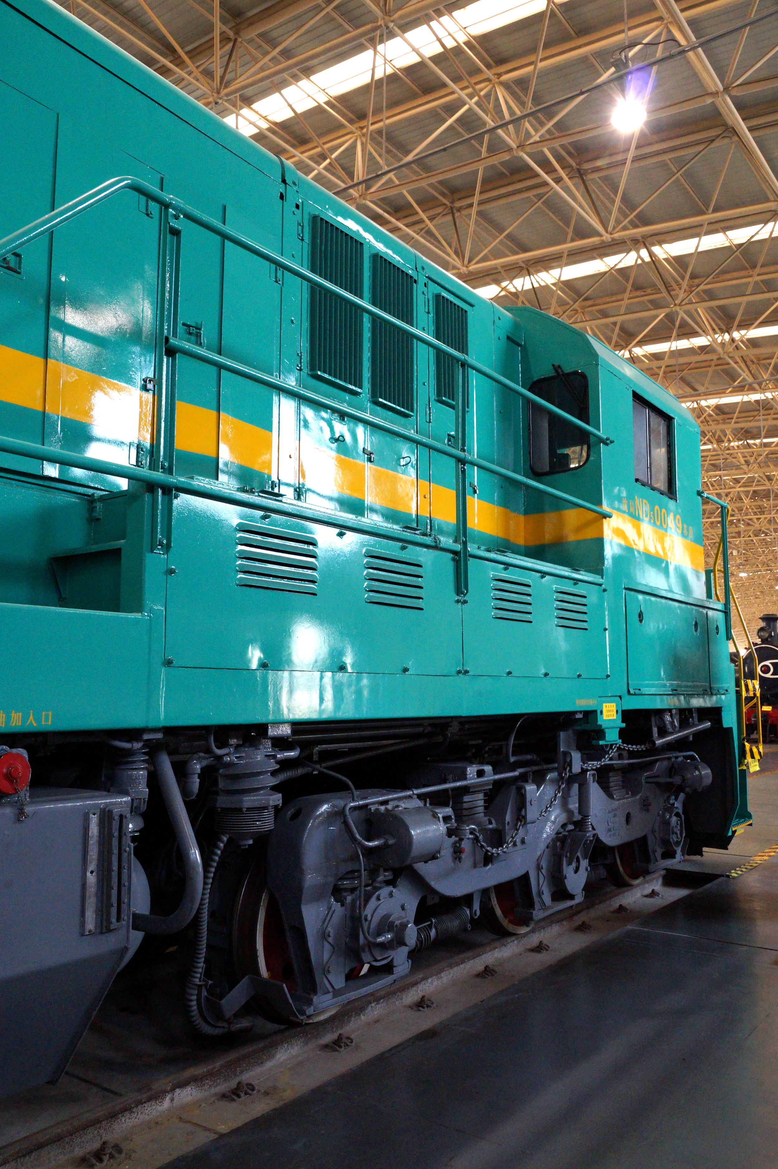 The right side of cab of China Railways ND5-0049 diesel locomotive